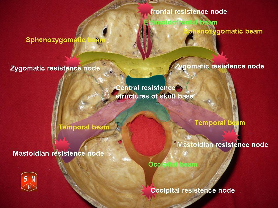 Endobasis - resistences nodes